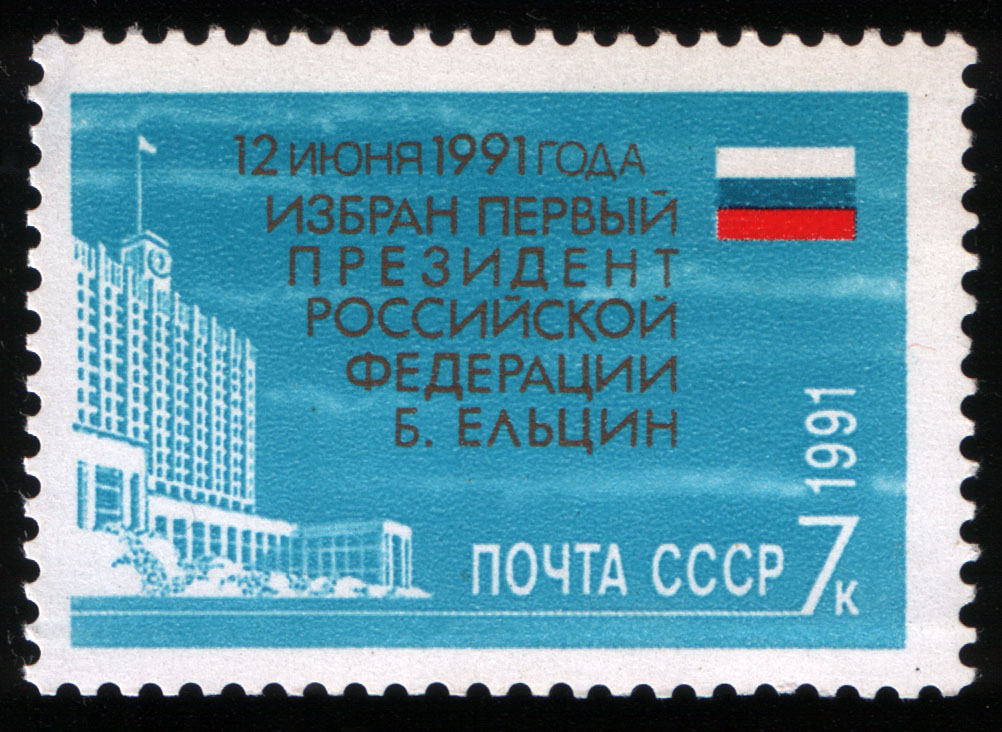 A Russia stamp, Soviet coup attempt of 1991. "12 June 1991 Election of the first President of the Russian Federation B. Yeltsin"